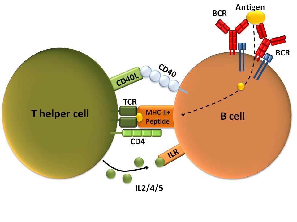 T-cell dependent b-cell activation, showing TH2-cell (left) B-cell (right) and several interaction molecules self-made according to: Charles A. Janeway jr. u. a.: Immunologie. 5. Auflage. Spektrum Akademischer Verlag Gmbh, Heidelberg, Berlin 2002, ISBN 3-8274-1078-9.